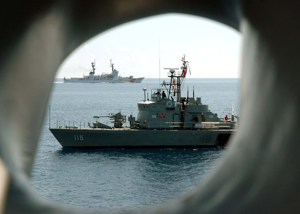 080530-N-2296G-021 WESTERN PACIFIC, Philippines (May 30) – Philippines navy ship BRP Nicolas Mahusay (PG-116) crosses the bow of USS Ford (FFG 54), with support from United States Coast Guard Cutter Morgenthau during a vessel board, search, and seizure (VBSS) exercise. Ford acted as a “suspect” ship with contraband, goods, and personnel. Naval forces from both countries boarded and searched the ship “arresting” several smugglers played by Ford crewmembers. The VBSS exercise is part of the Philippine phase of Cooperation Afloat Readiness and Training (CARAT) 2008. CARAT is an annual series of bilateral maritime training exercises between the United States and six Southeast Asia nations to build relationships and enhance the operational readiness of the participating forces. Navy photo by Mass Communication Specialist 1st Class Dave Gordon (Released)